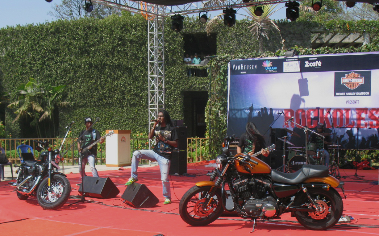 Highway 69 at IIM Bangalore during Unmaad 2014